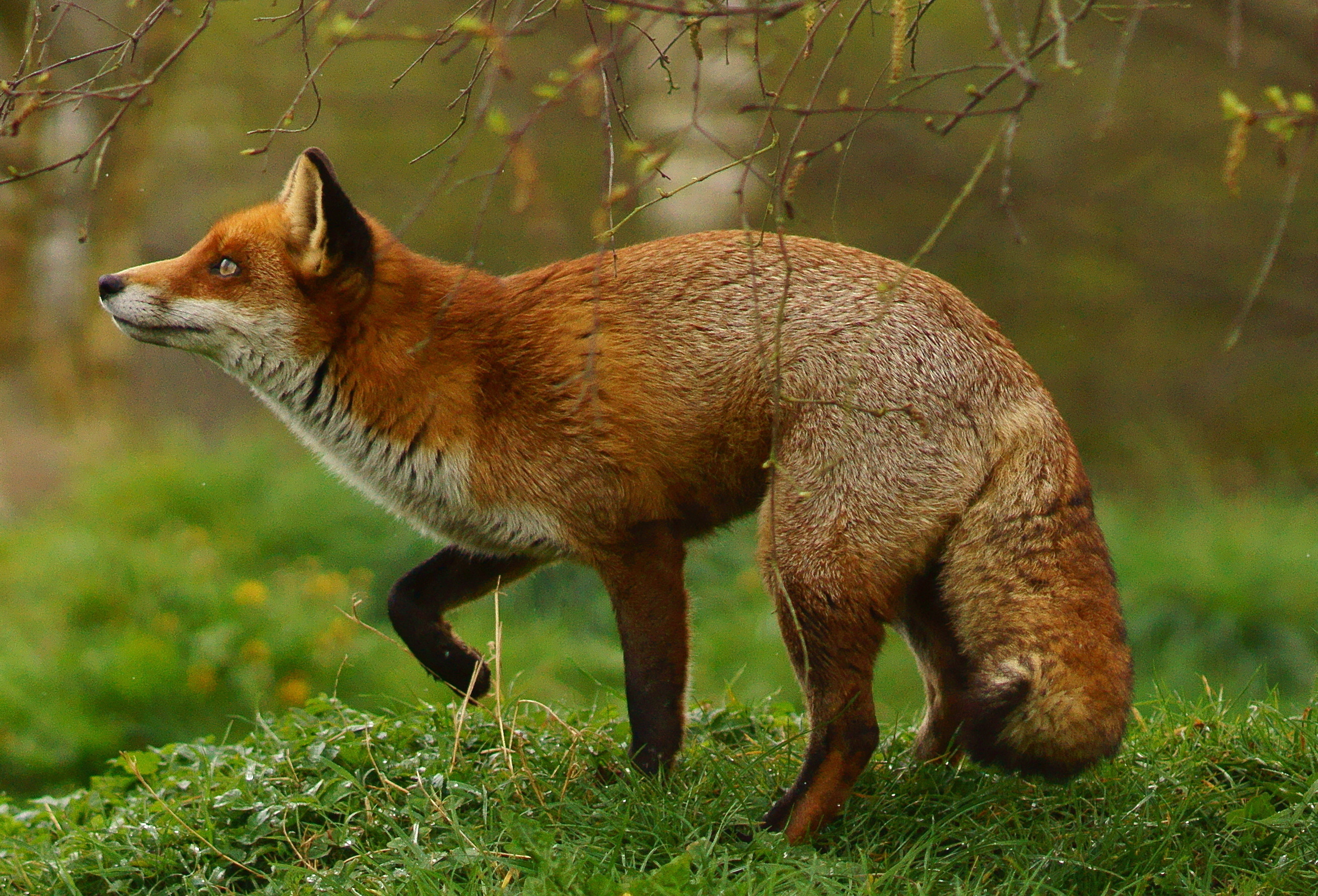 At the British Wildlife Centre, Newchapel, Surrey, 'Flo' heads towards the food.